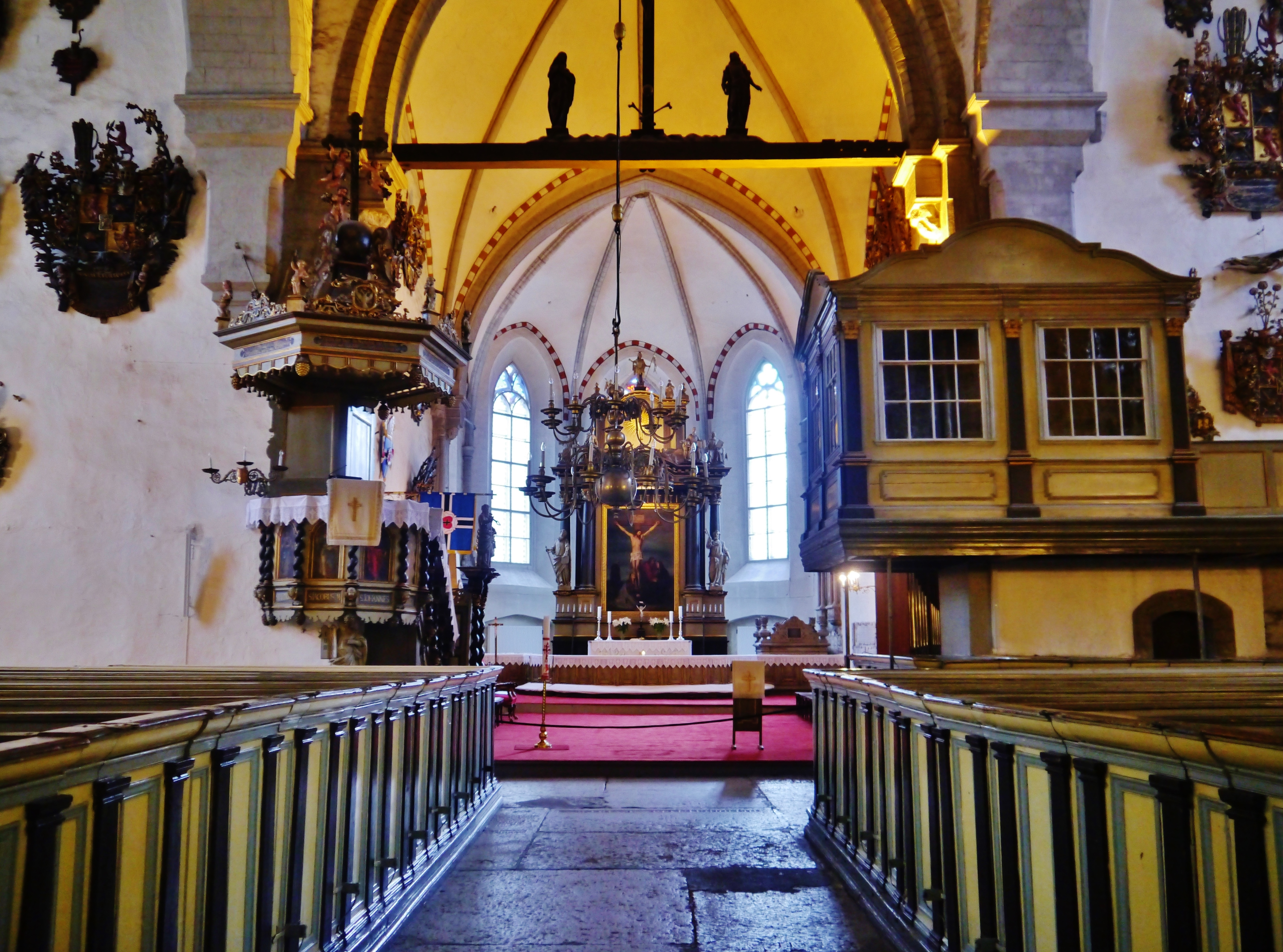 Nave of the Cathedral St. Mary, Tallinn, Estonia